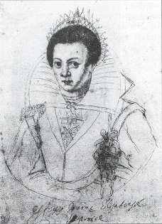 Portrait of Elisabeth Jane Weston